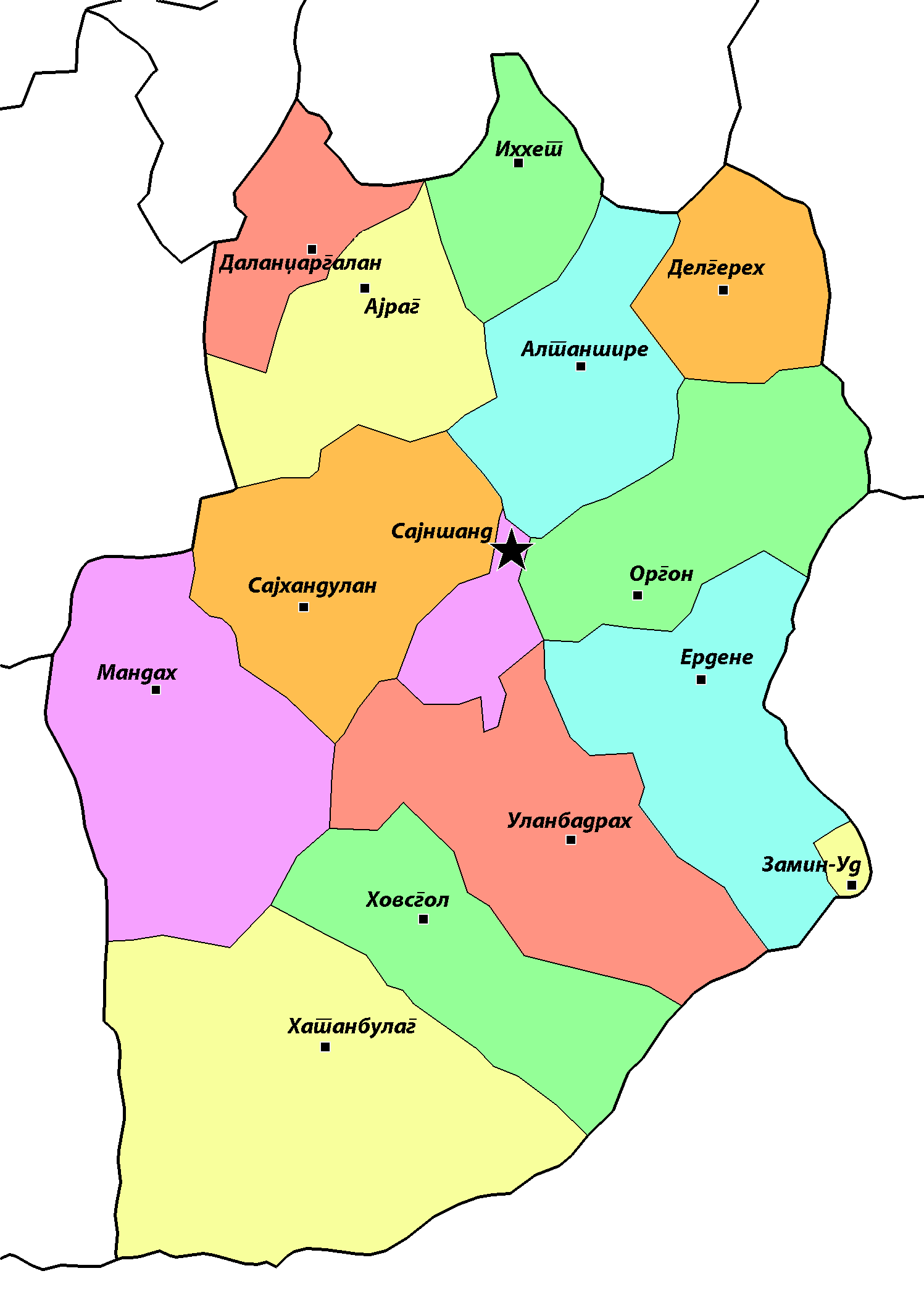 Translated map of Dornogovi Sum into Macedonian language